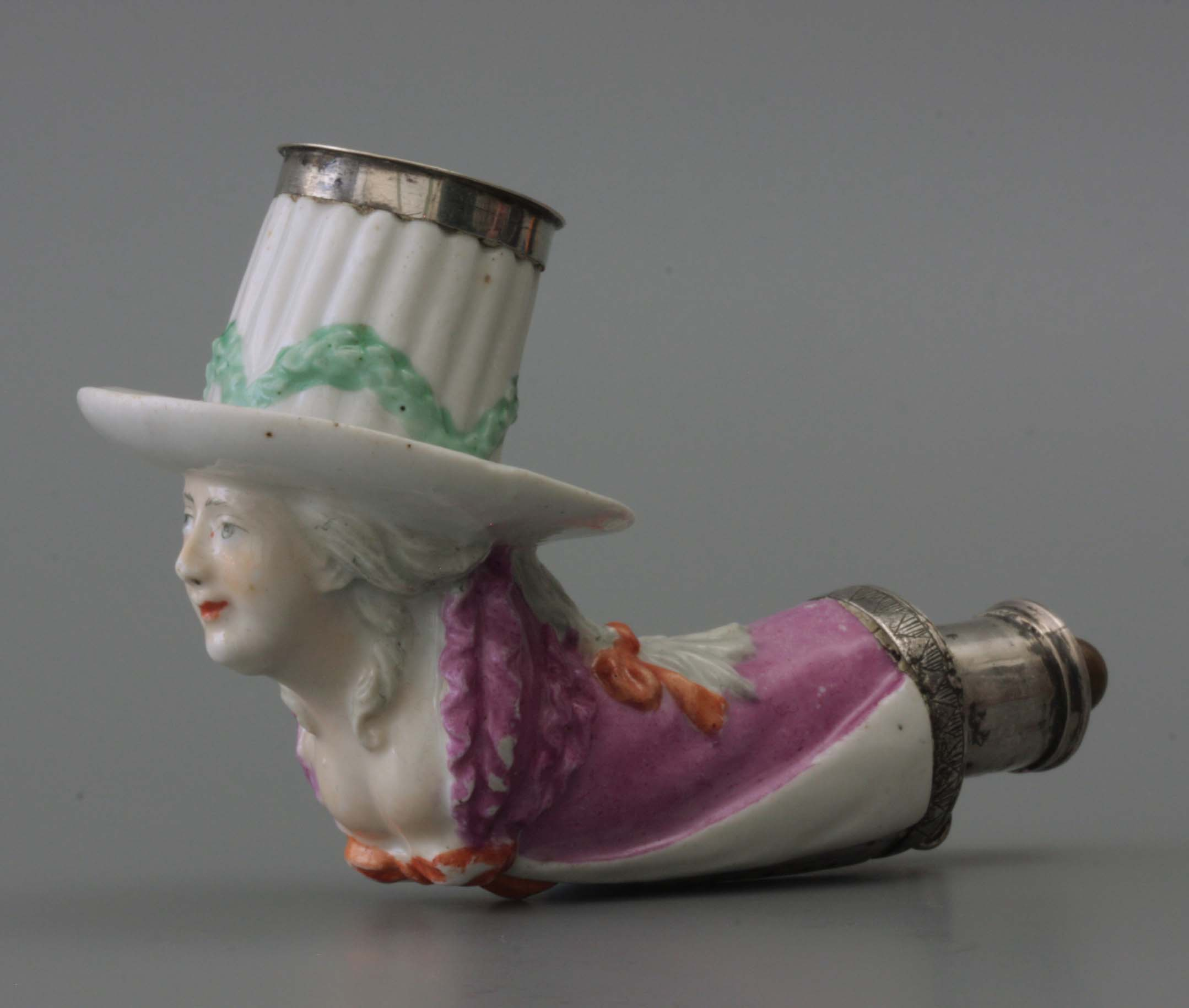 Figural porcelain pipe, Ludwigsburg, Germany, mid 18thy C. (collection Pijpenkabinet, Amsterdam)